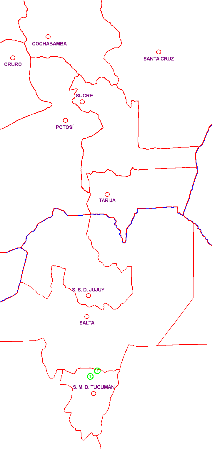 Distribution of Rebutia minuscula